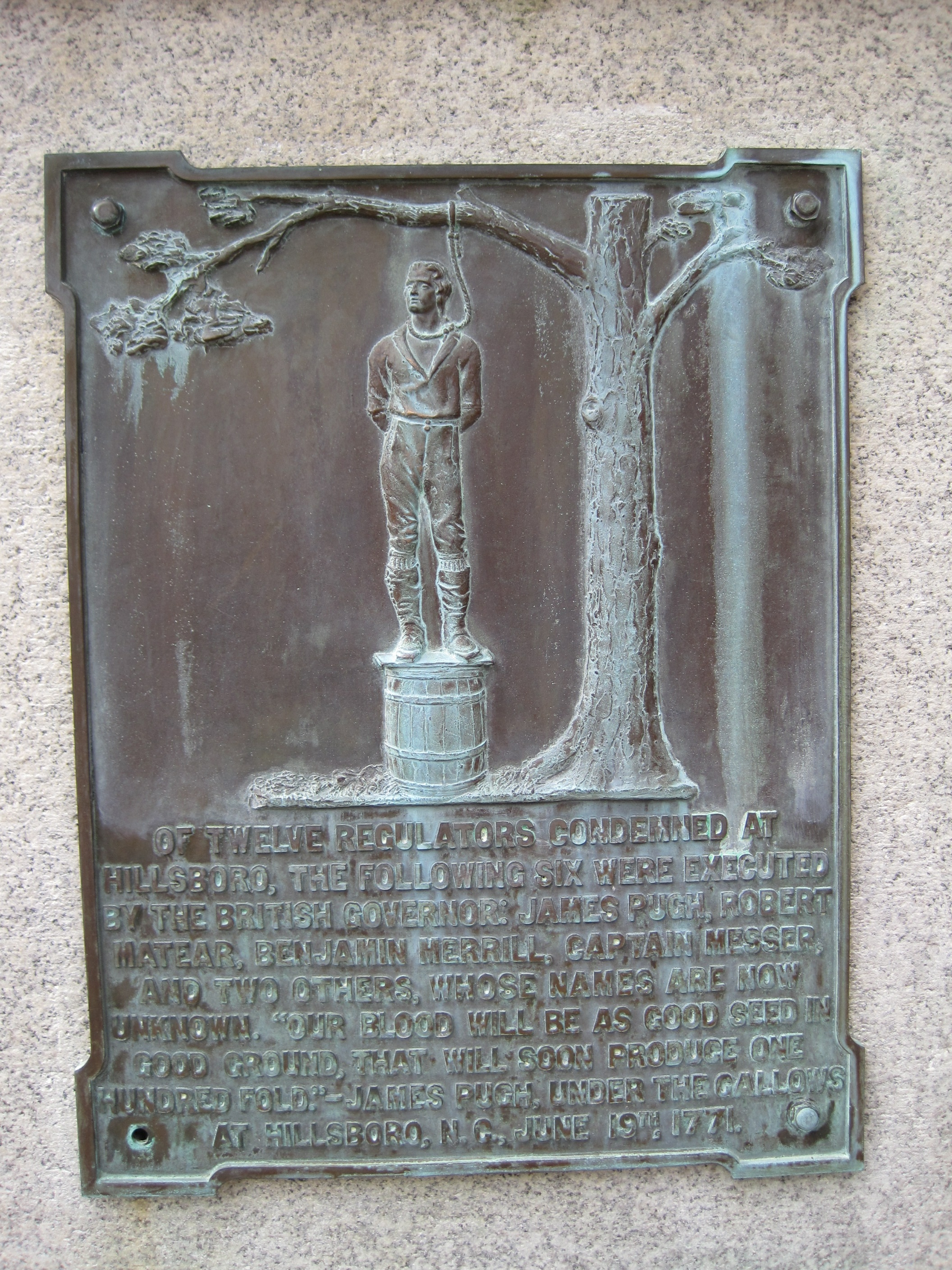 Plaque from battleground monument. Reads: "Of the twelve regulators condemned at Hillsboro, the following six were executed by the British Governor: James Pugh, Robert Matear, Benjamin Merrill, Captain Messer, and two others whose names are now unknown. "Our blood will be as good seed in good ground, that will soon produce one hundred fold." - James Pugh, under the gallows at Hillsboro, N.C., June 19th, 1771."